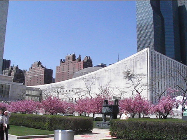 Building housing the United Nations General Assembly, United Nations Headquarters, New York City